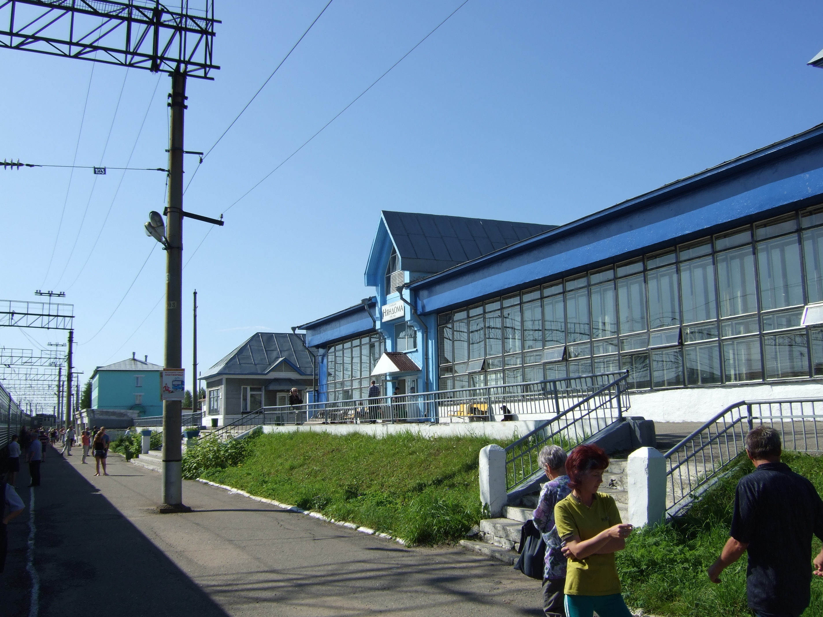 Nyandoma train station